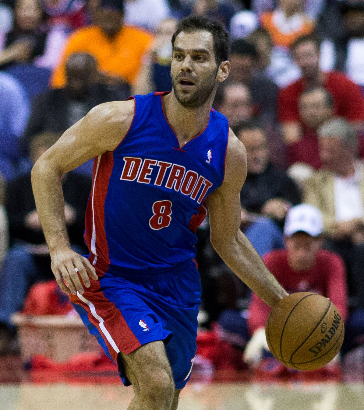 José Calderón, Detroit Pistons at Washington Wizards Feb 27, 2013